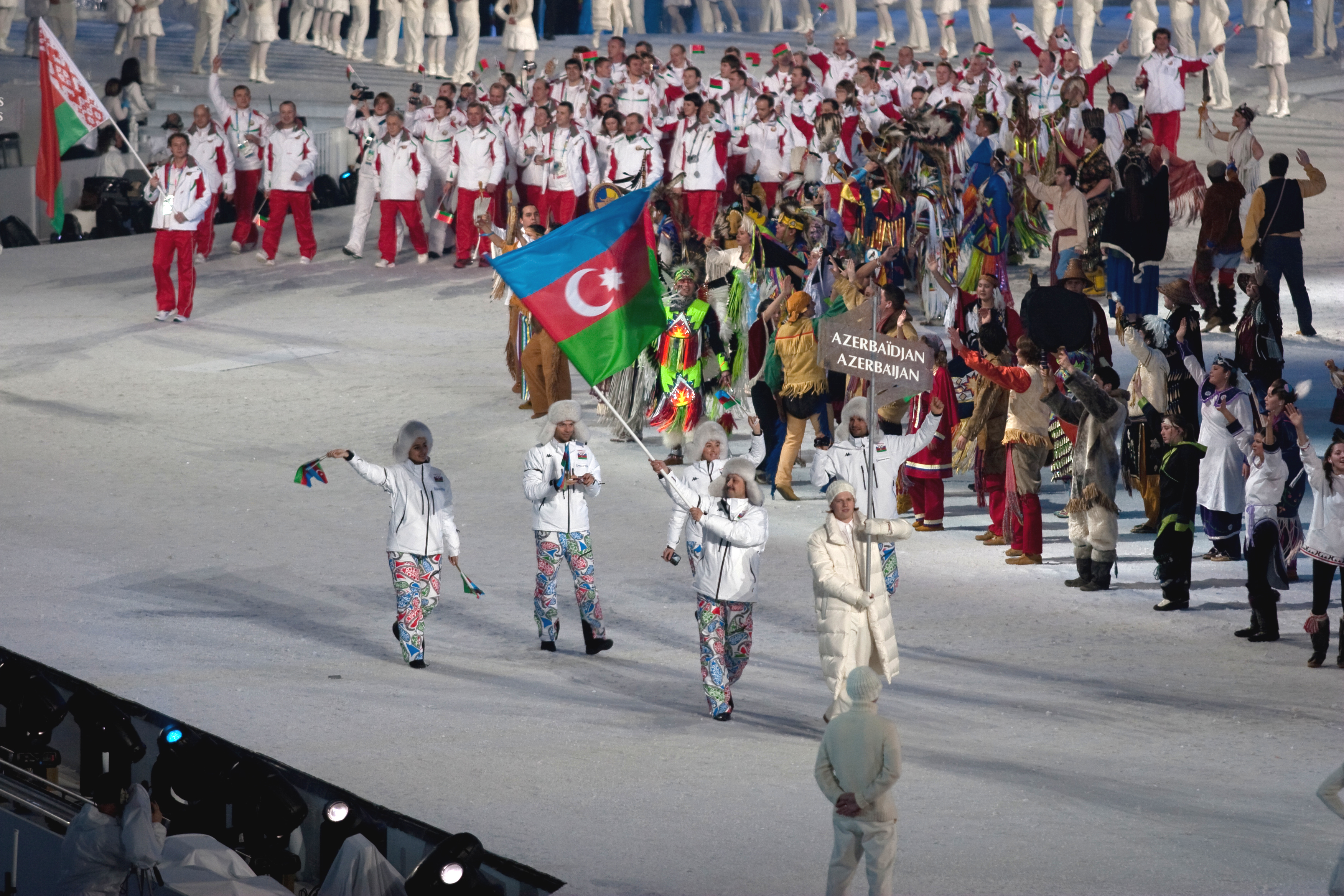 The athletes from Azerbaijan entering the stadium at the opening ceremonies of the 2010 Winter Olympics